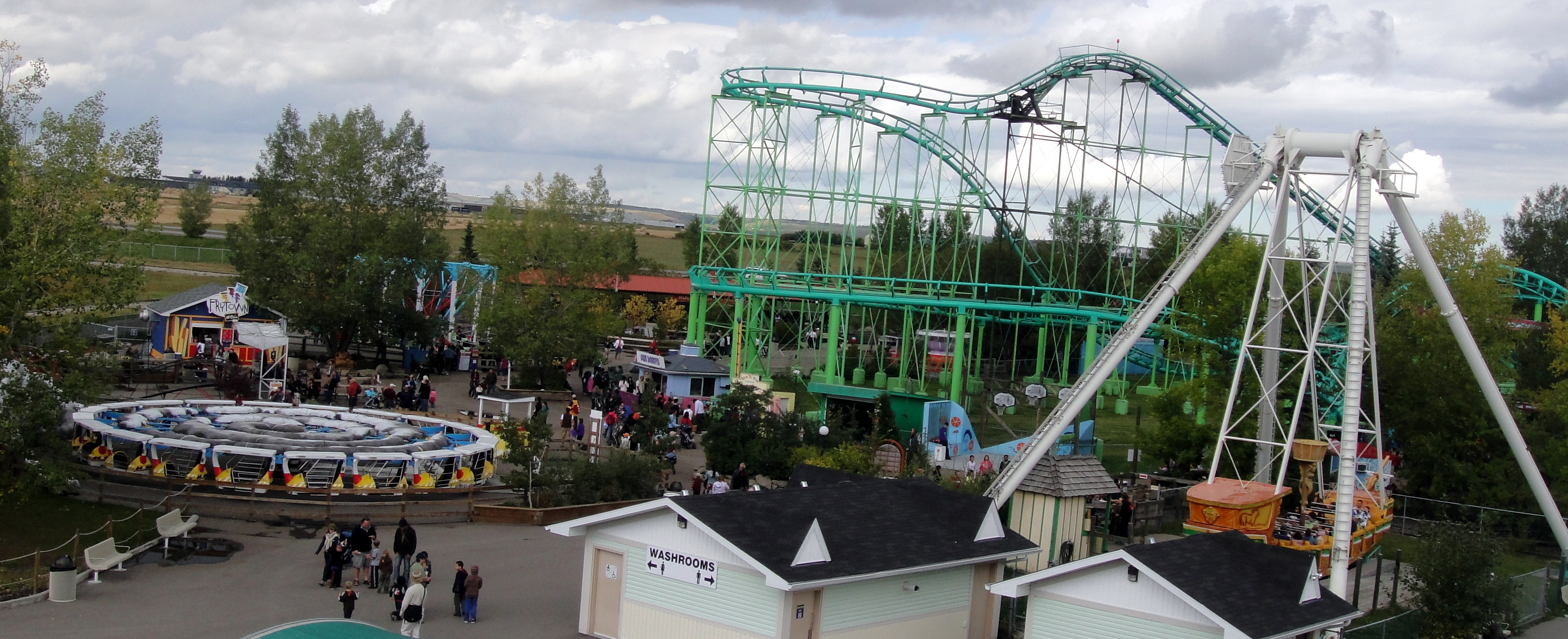 Roller coaster in Calaway Park near Calgary, Alberta, Canada